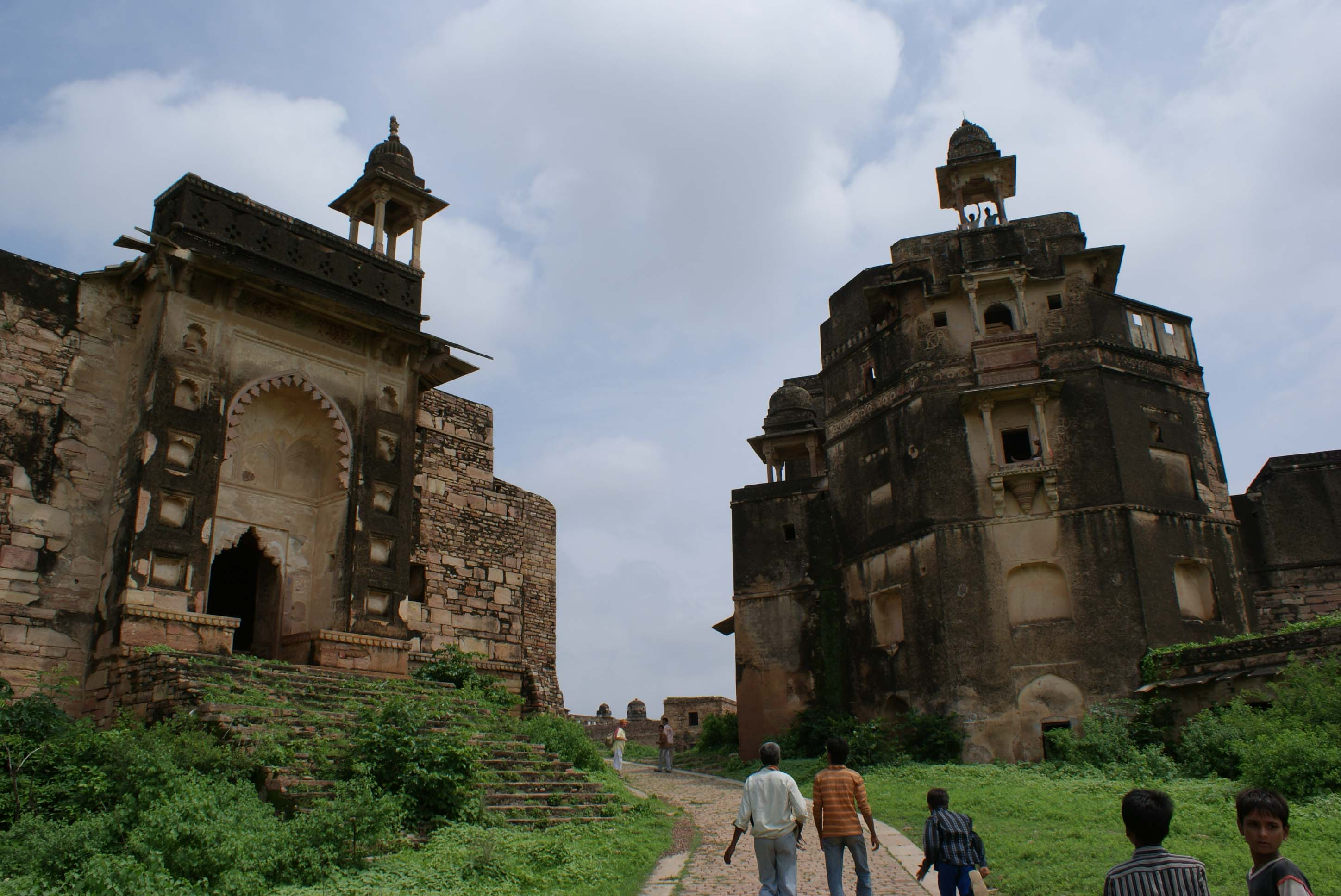 Any site in Gwalior Fort